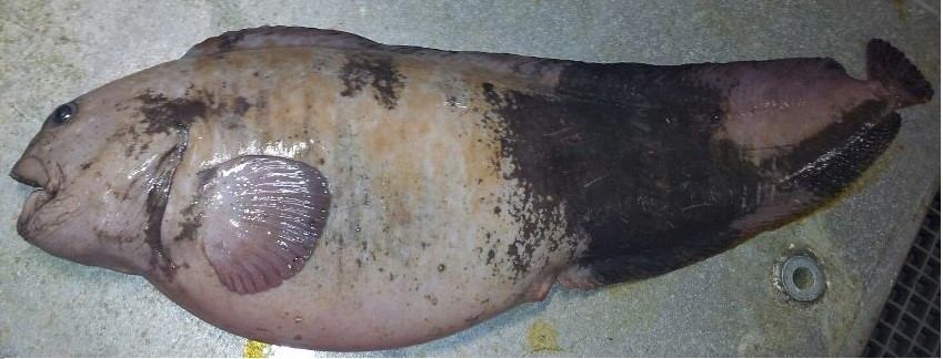 Northern Wolffish